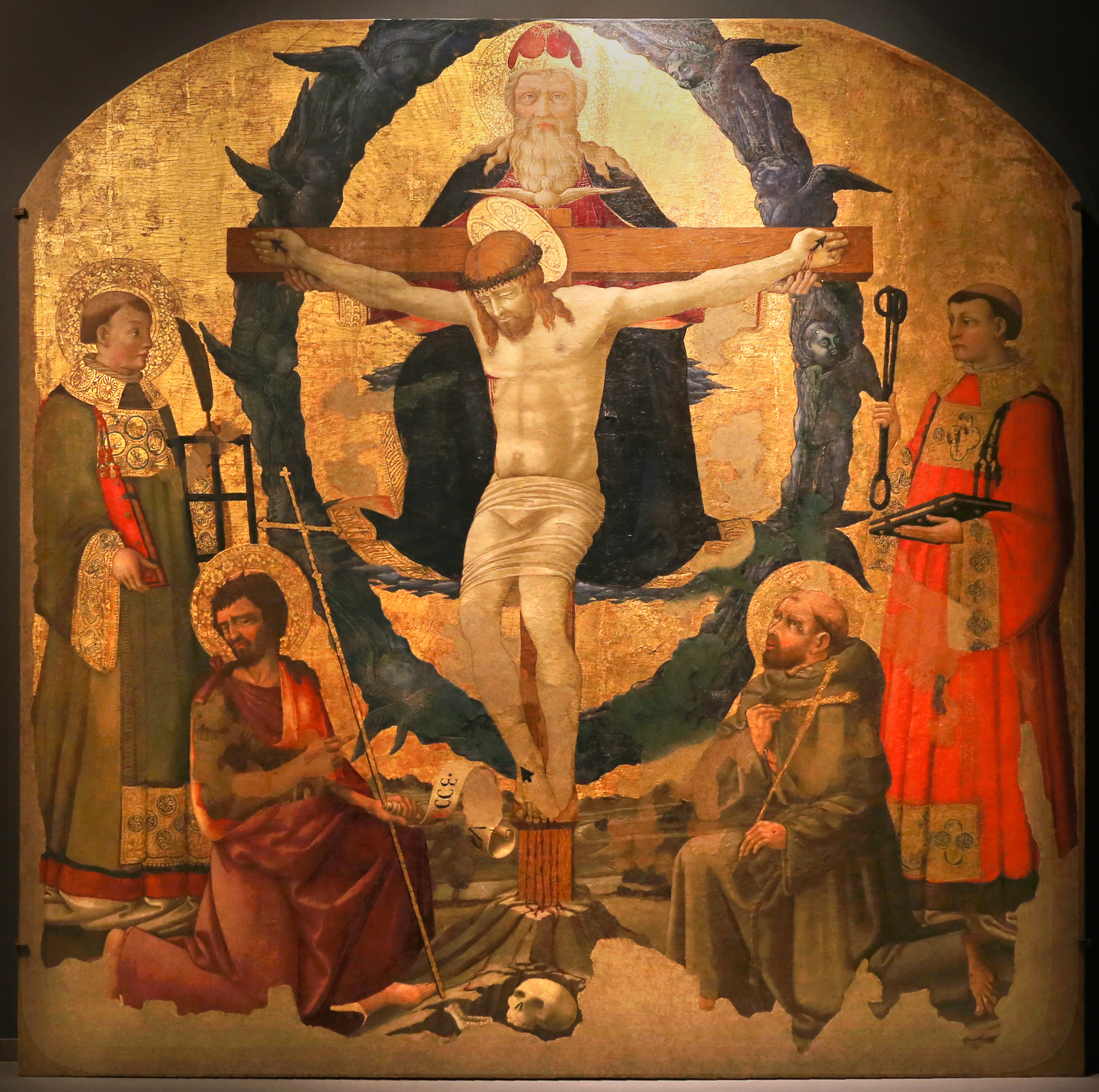 La Bellezza Salvata (2016-2017 exhibition)